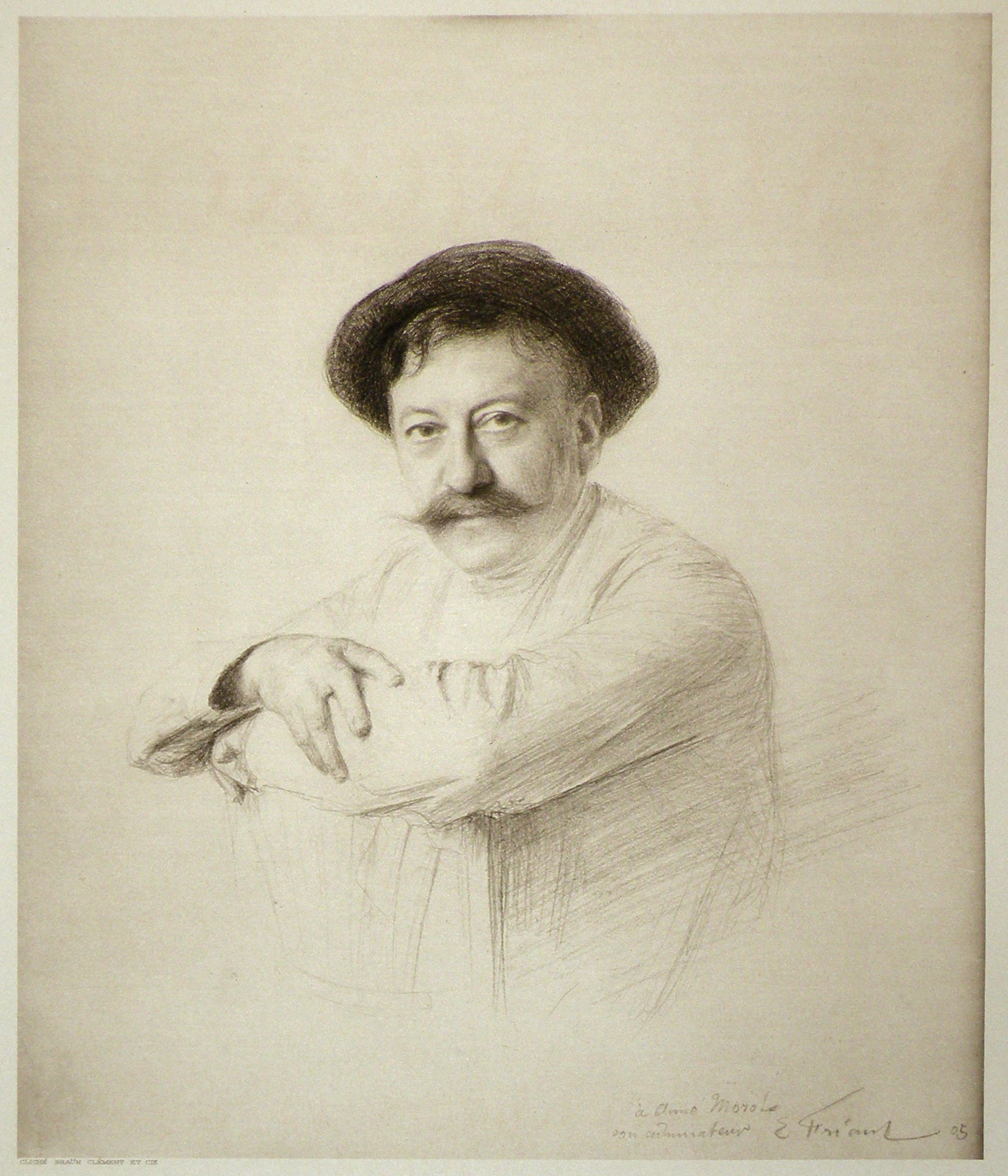 Émile Friant (1863-1932) Portrait of Aimé Morot, 1905. Gravure (Cliché Braun Clément et Cie), as published in Aimé Nicolas Morot and Charles Moreau-Vauthier, L'œuvre d'Aimé Morot : membre de l'Académie des Beaux-Arts, Paris, Librairie Hachette et Cie, 7 p., 60 gravures, in folio, 1906.